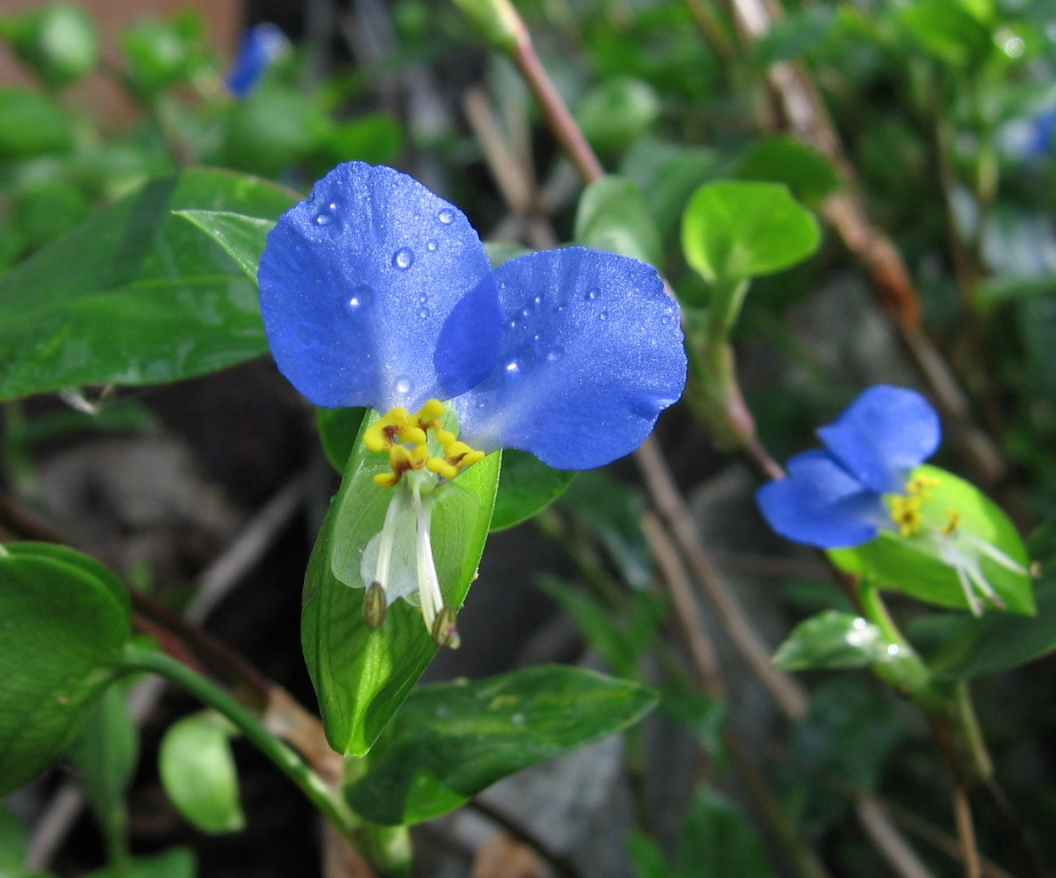 Commelia communis